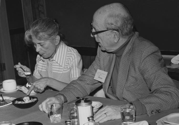 This historic photographic depicted Dr. Alexander D. Langmuir (1910 - 1993), seated to the right of Ms. Ida Sherwood during an Epidemic Intelligence Service (EIS) luncheon. Dr. Langmuir was chief epidemiologist at the Centers for Disease Control and Prevention for two decades. Dr. Langmuir founded the Disease Investigations branch of the Epidemic Intelligence Service (EIS) in 1951. He was a strong proponent of "shoe leather" epidemiology--an intense focus on the people and places where the disease outbreaks actually occurred, and the precise gathering of statistics to support whatever action was needed. In starting the CDC EIS program, his goal was to introduce professionals from medicine and relevant social sciences to the science of epidemiology in the hope that they would become well educated in the practice of public health. As a result, many of these “disease detectives” continued on in the field of epidemiology, while others carried that knowledge with them into whatever careers they chose, as advocates for sound public health practice.